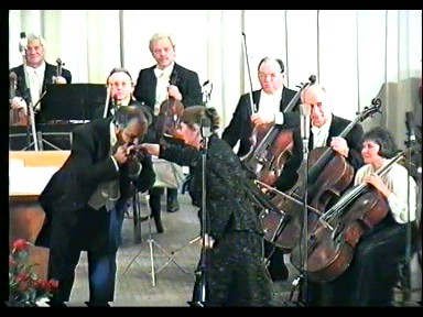 Татьяна Смирнова "Адажио памяти Д.Д.Шостаковича" для струнного оркестра дирижёр Константин Орбелян